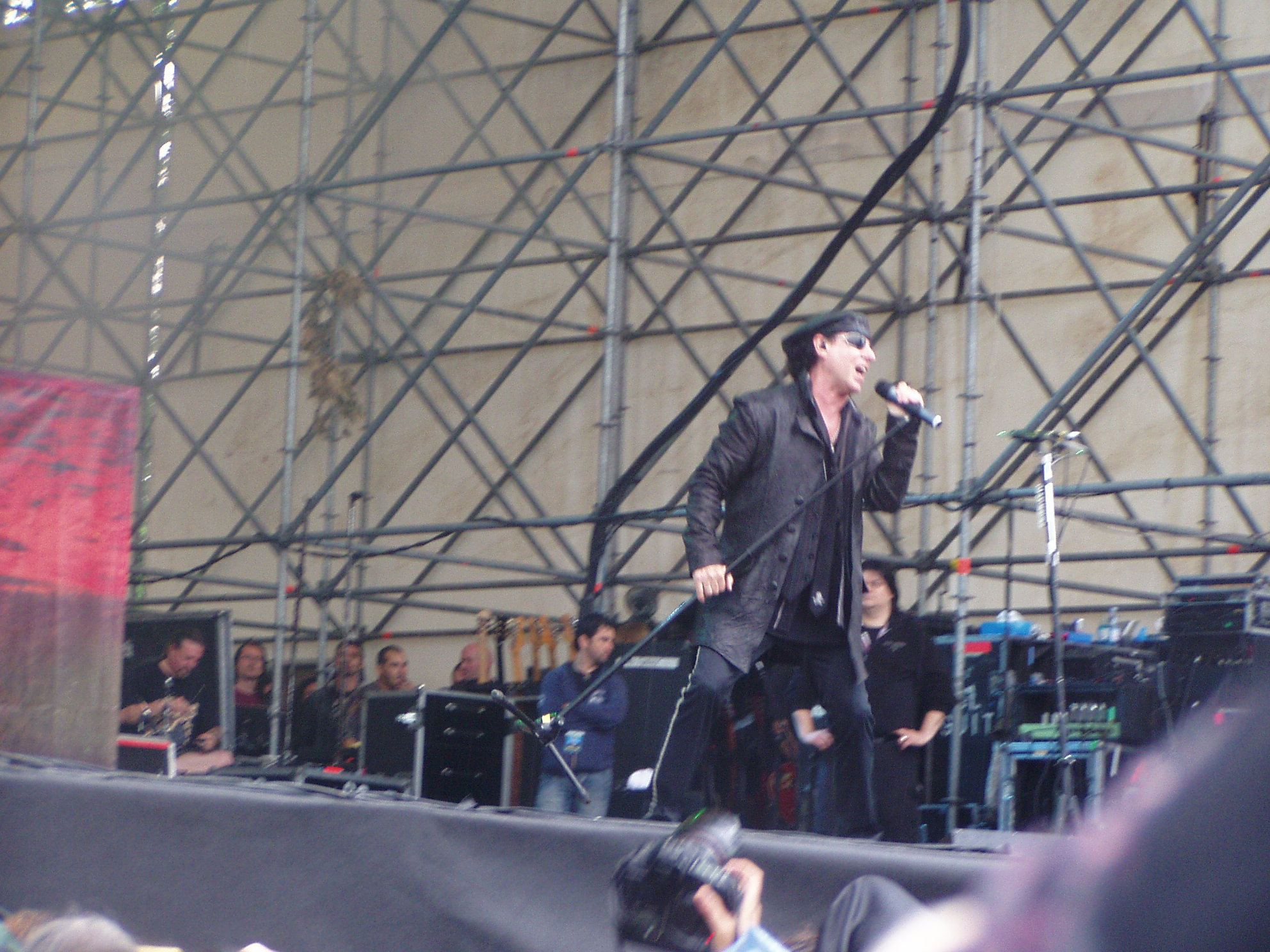 Gli Scorpions al Gods of Metal 2007